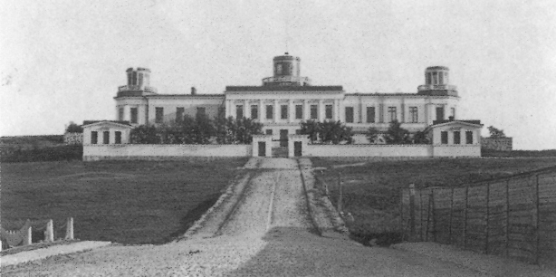 Photograph of Helsinki Observatory from north in ca. 1870 by Eugen Hoffers (1832–1893).